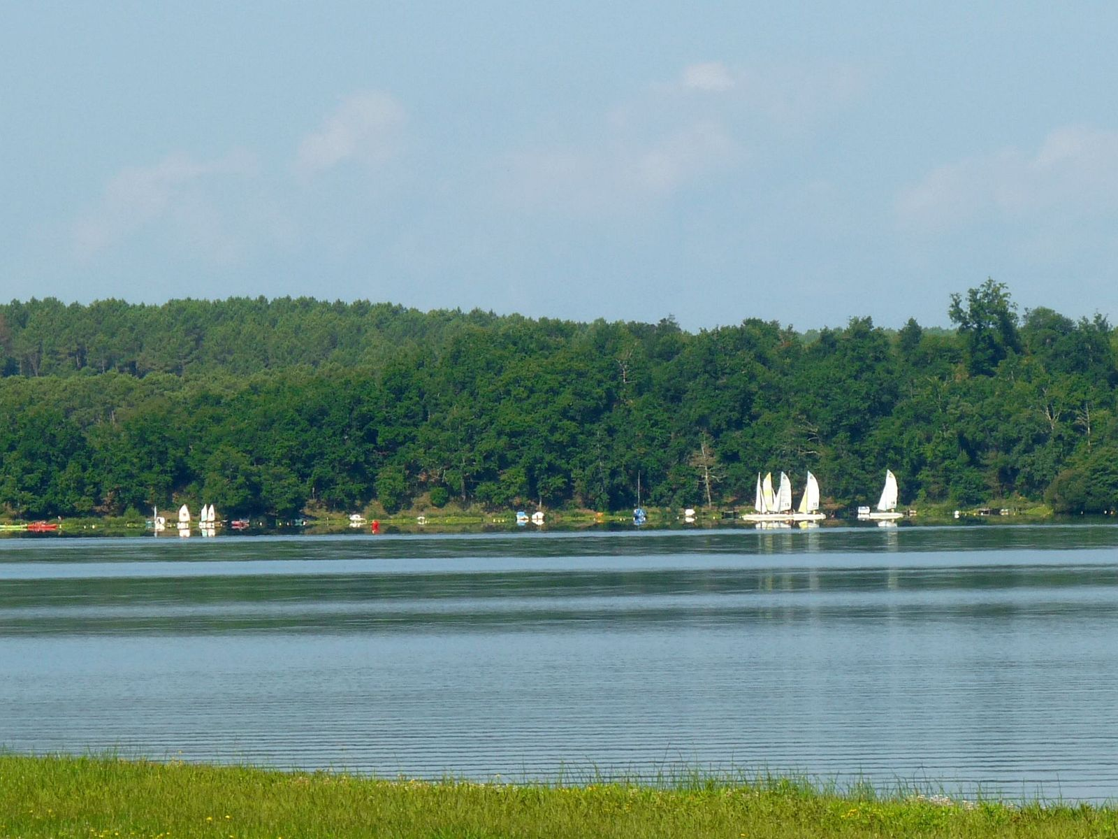 Lake of Aureilhan, Landes, SW France